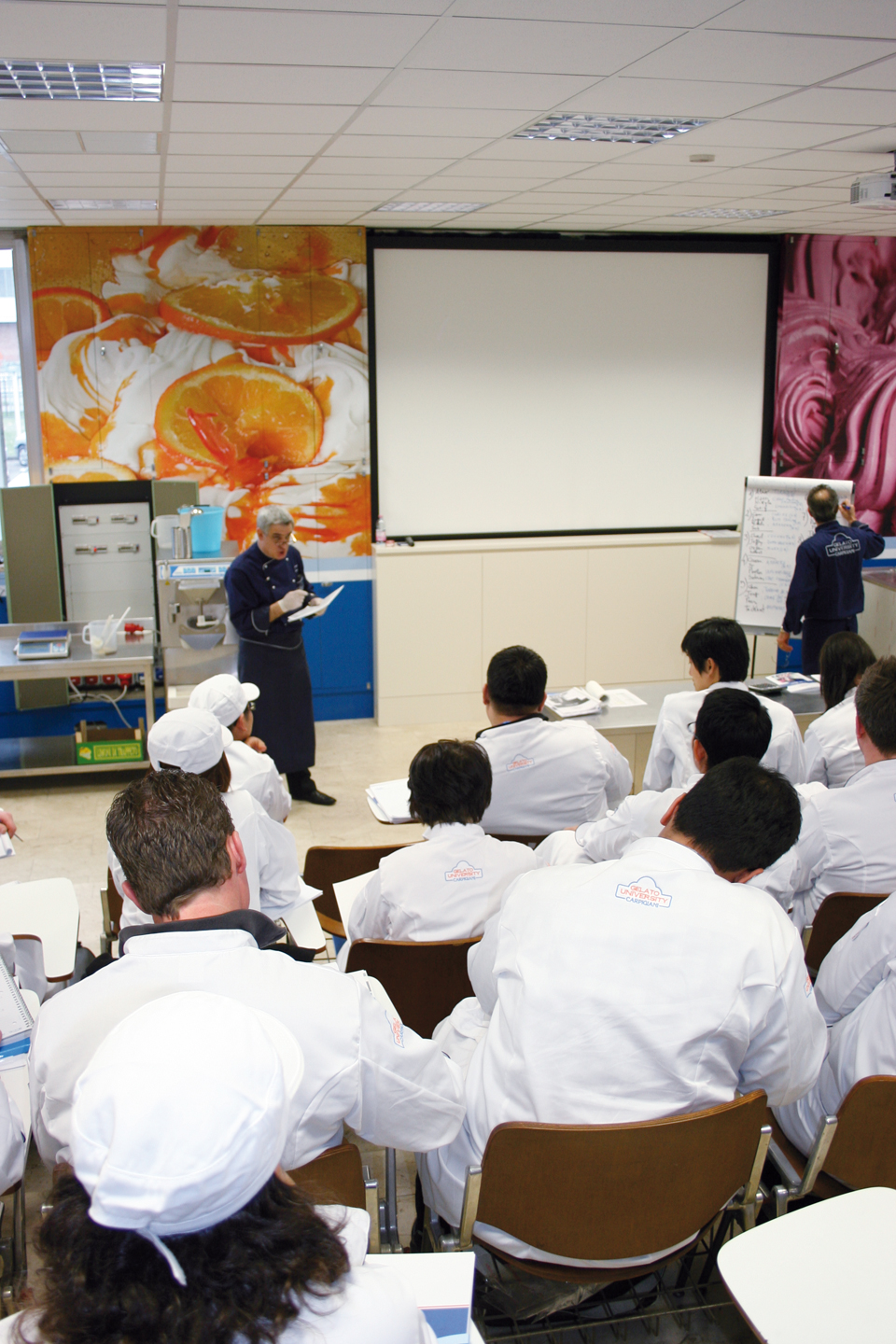 Students at the Gelato University with il Maestro Luciano Ferrari - Italy